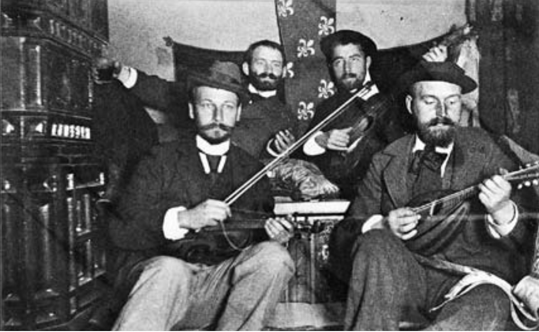 From left to right: Wilhelm Balmer, Emil Schill, Fritz Mock und Franz Baur, 1898